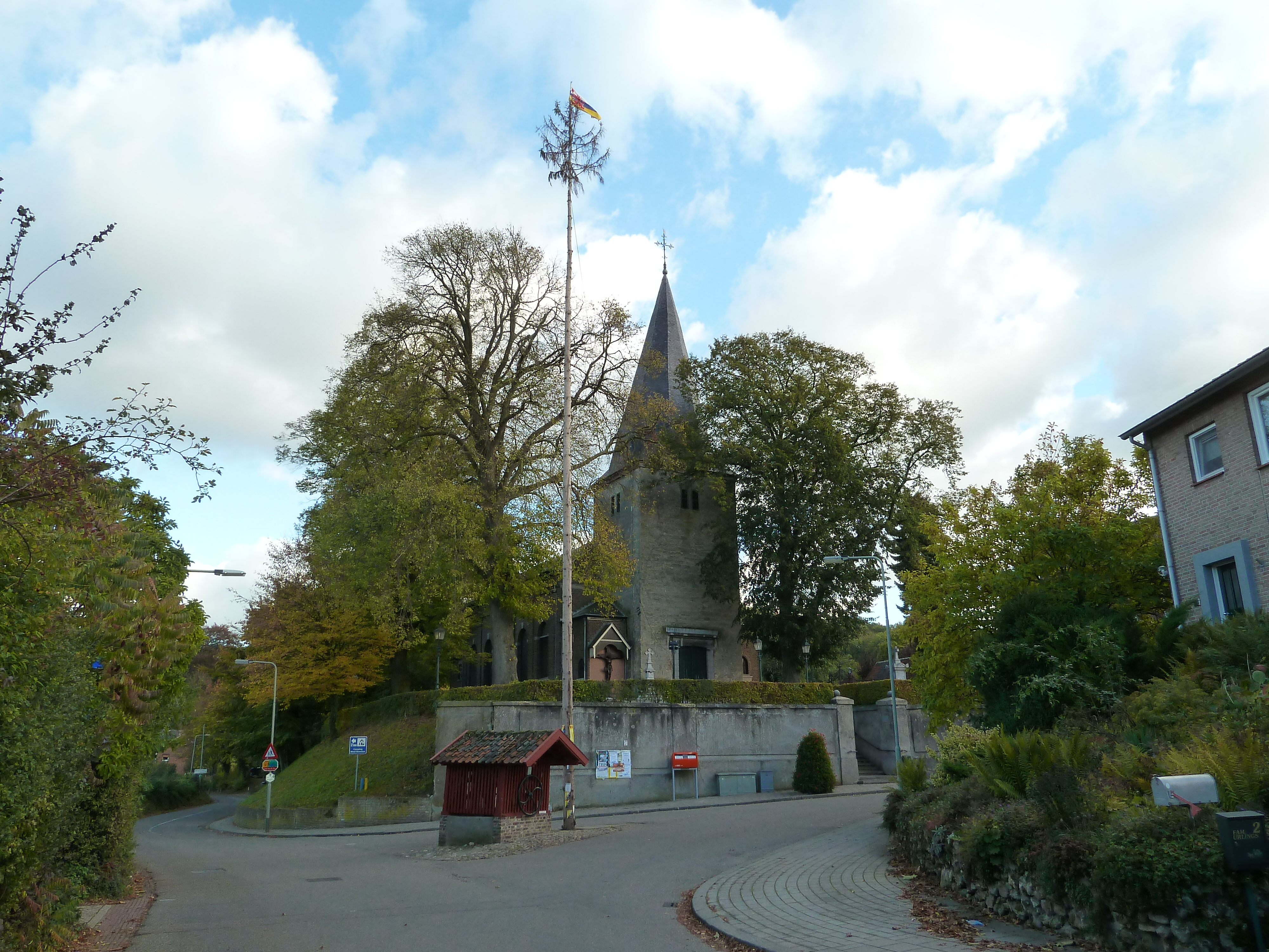 Kerk, Bemelen, Limburg, the Netherlands